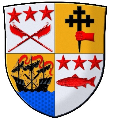 Denboig Coat of Arms, Kenneth MacLean Baron of Denboig, Ensigns Armorial viz: Quarterly, First, Argent, two Lochaber axes in saltire, In chief three mullets Gules, oars in saltire Sable, flagged Gules, on a sea in base undy Azure: Fourth, Argent, a salmon naiant, in chief three mullets Gules.